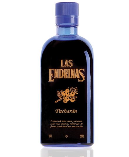 Bottle of pacharán